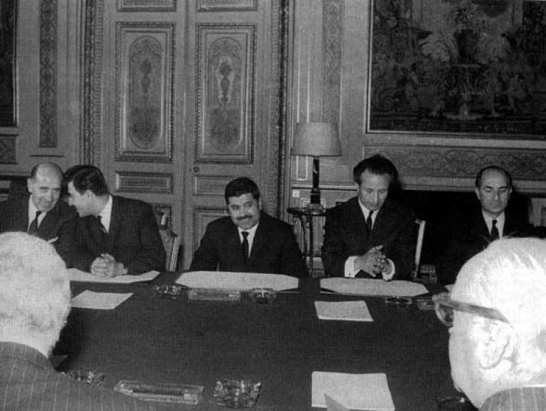 Syrian Prime Minister Yusuf al-Zu'ayyin at the Quai d' Orsay in Paris on December 11, 1967, meeting with President Charles de Gaulle. From left to right: Haytham Kaylani, the secretary-general of the Syrian Ministry of Foreign Affairs, Dr Sami al-Jundi, the Syrian Ambassador, Prime Minister Zu'ayyin, Foreign Minister Ibrahim Makhous, and Abdullah al-Khani, the Syrian Minister in France.